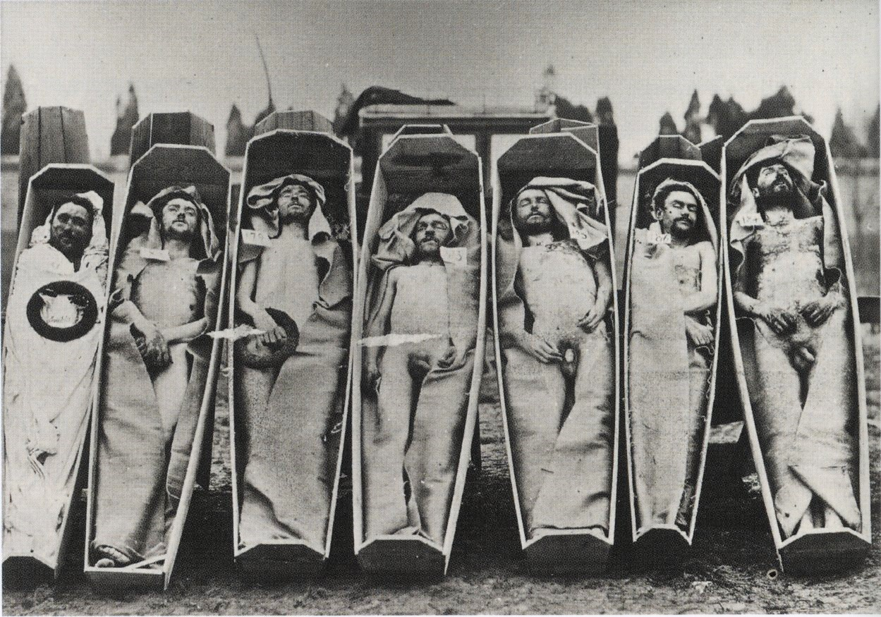 Bodies of militants of the Paris Commune